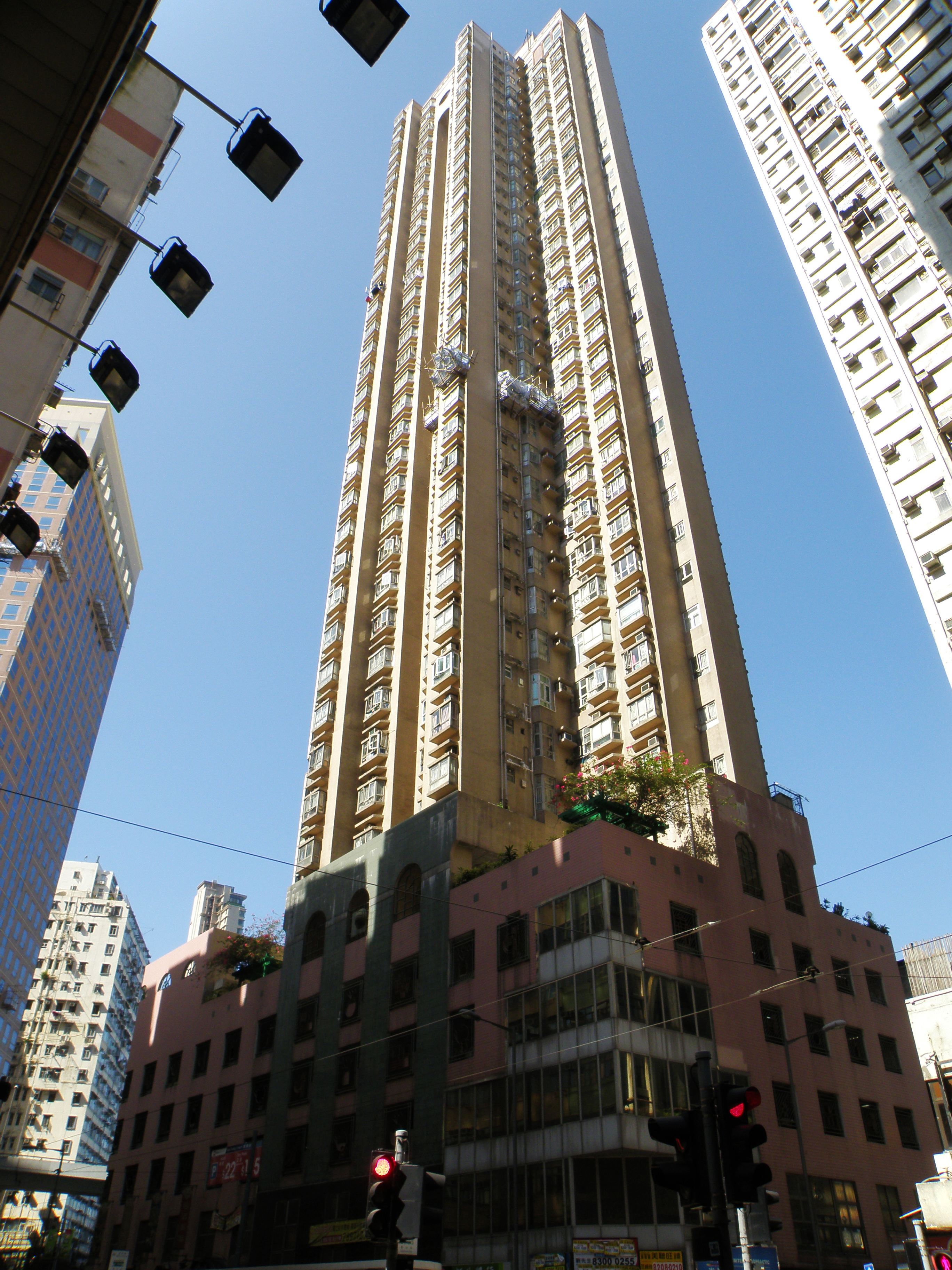 Lung Fung Court in Shek Tong Tsui, Hong Kong.